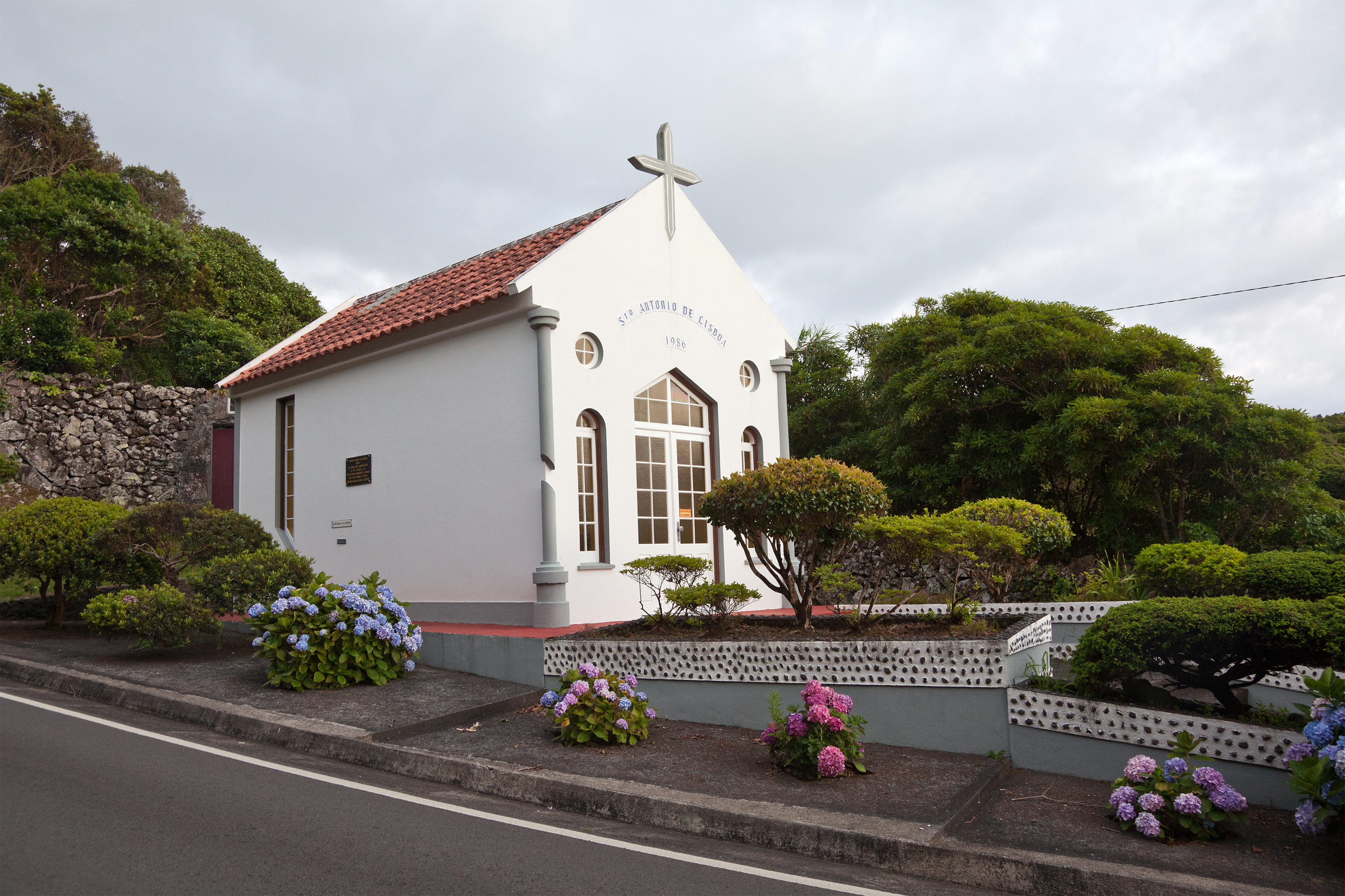 Cuada (Fajã Grande), Flores Island, Azores, Capela de Santo António